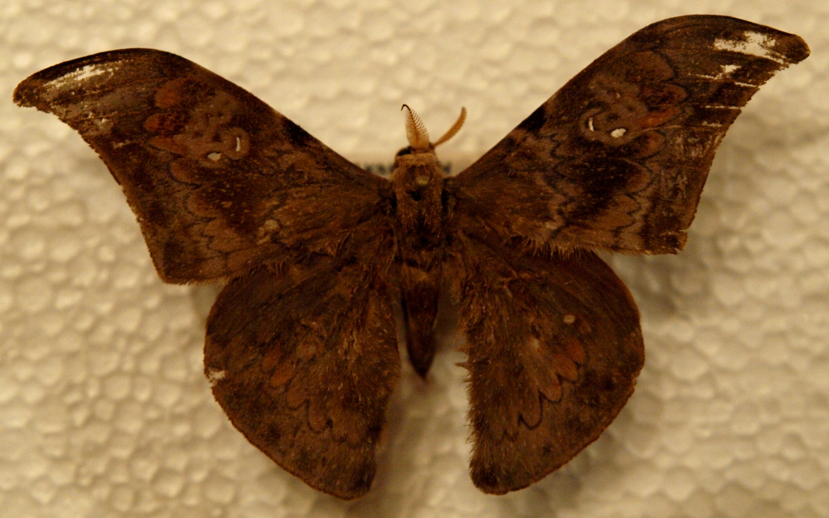 Orthogonioptilum adiegatum Karsch, 1893. Source: own collection